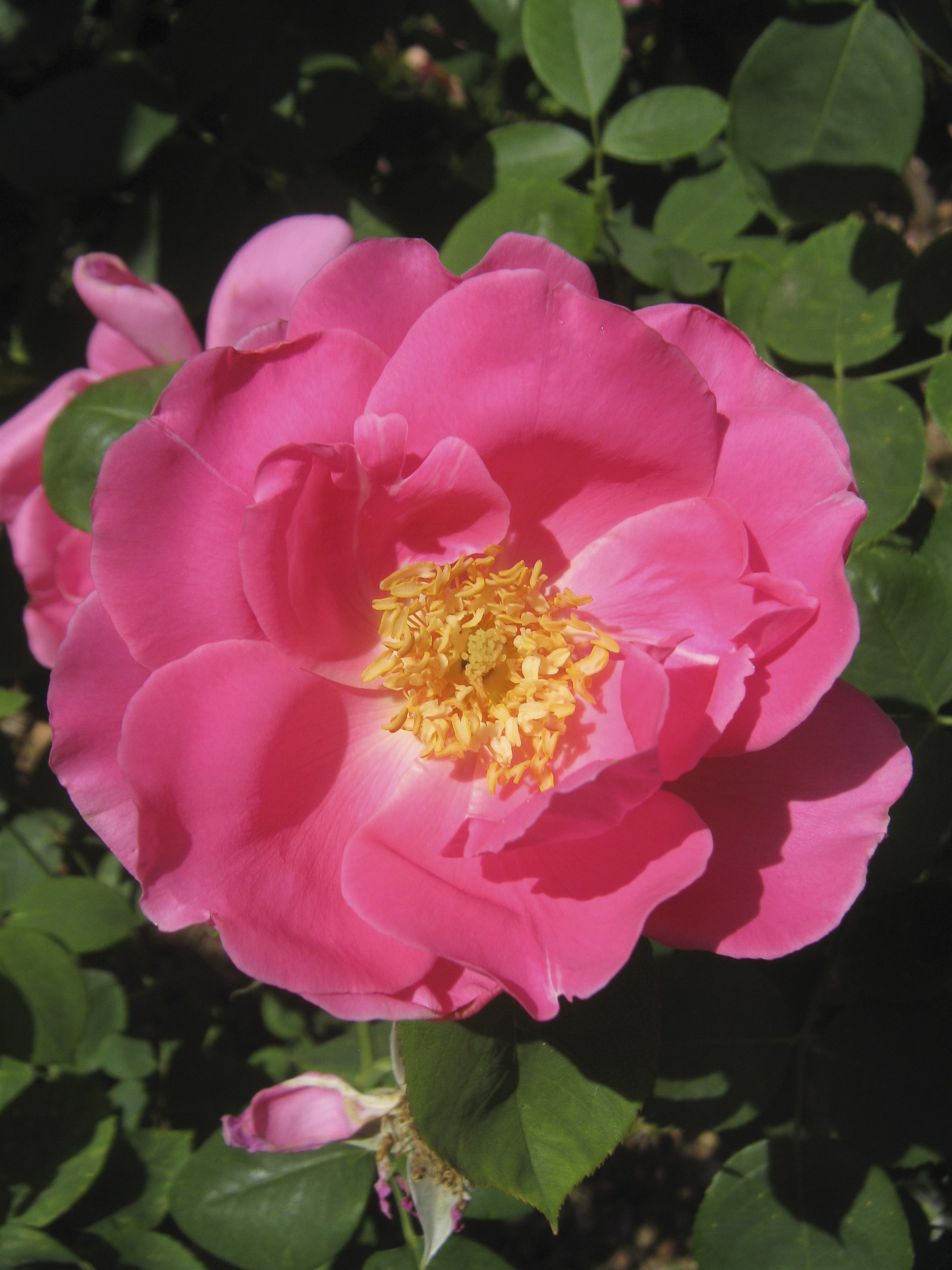 Rose 'Kitty Kininmonth', Hybrid Gigantea climber by Alister Clark 1922; photographed in the Alister Clark Memorial Rose Garden, Bulla, Victoria